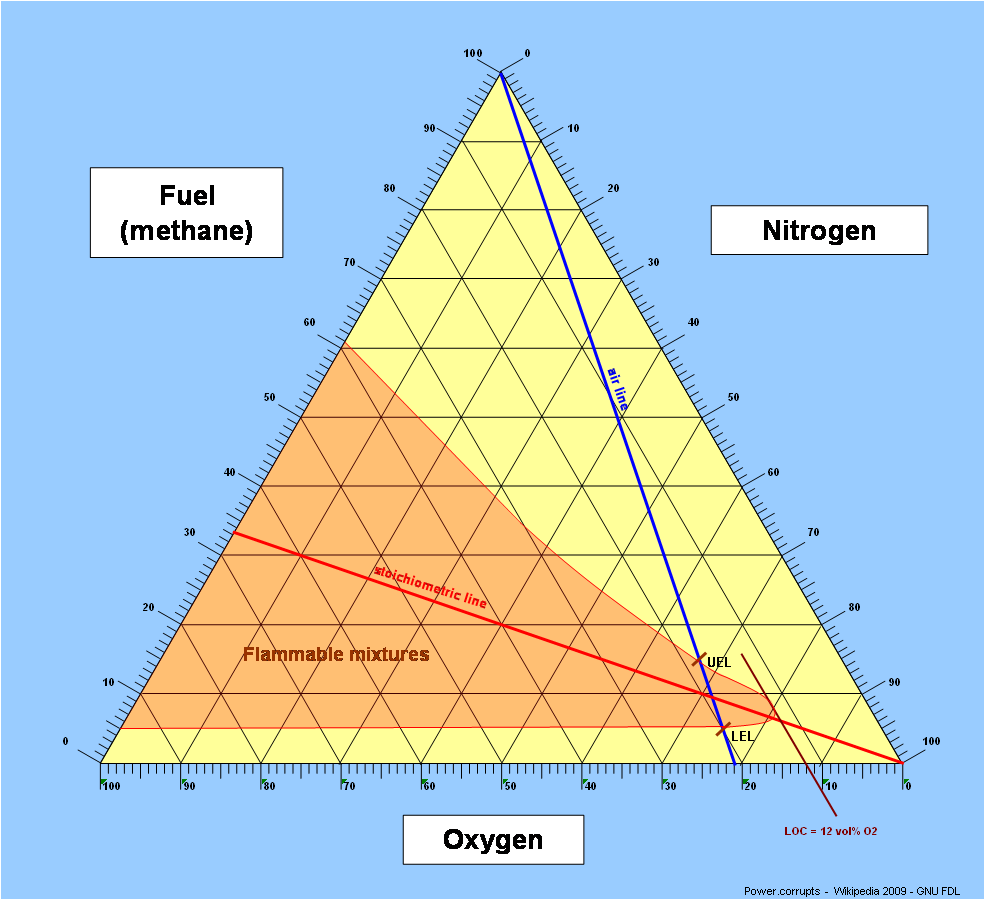 Flammability diagram for methane